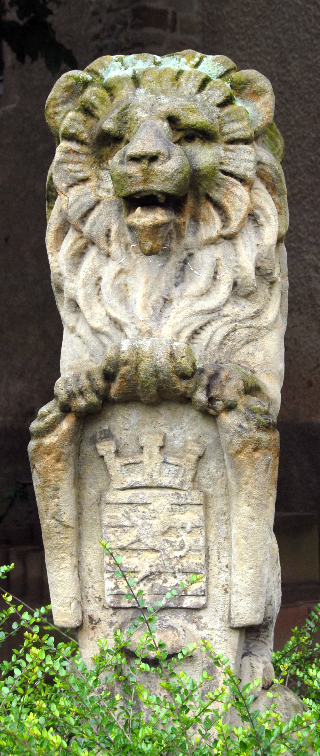 Luxembourg, Diekierch: sculpture by Michel Deutsch (1837-1905) erected nearby the church.